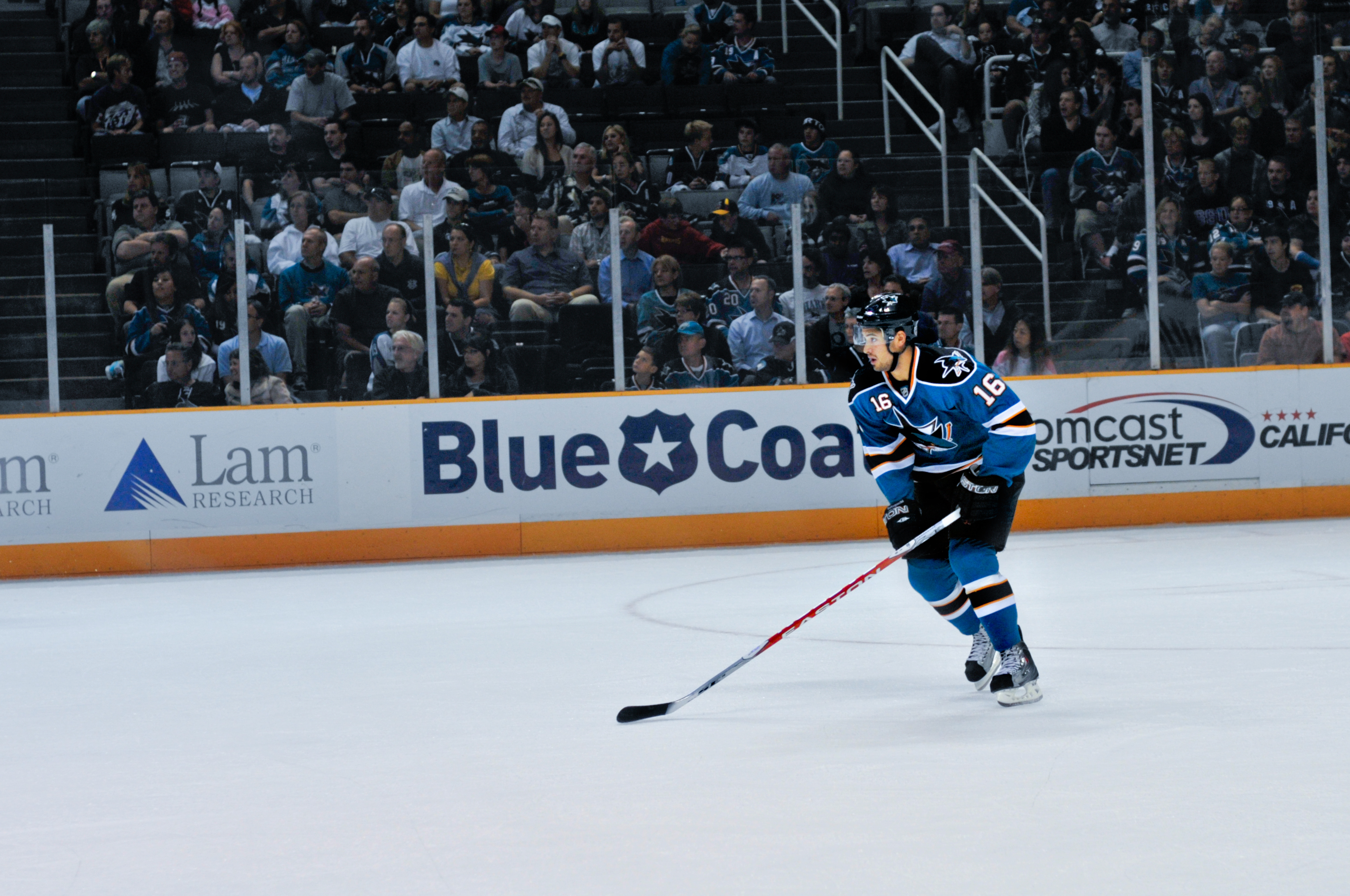 Devin Setoguchi of San Jose Sharks